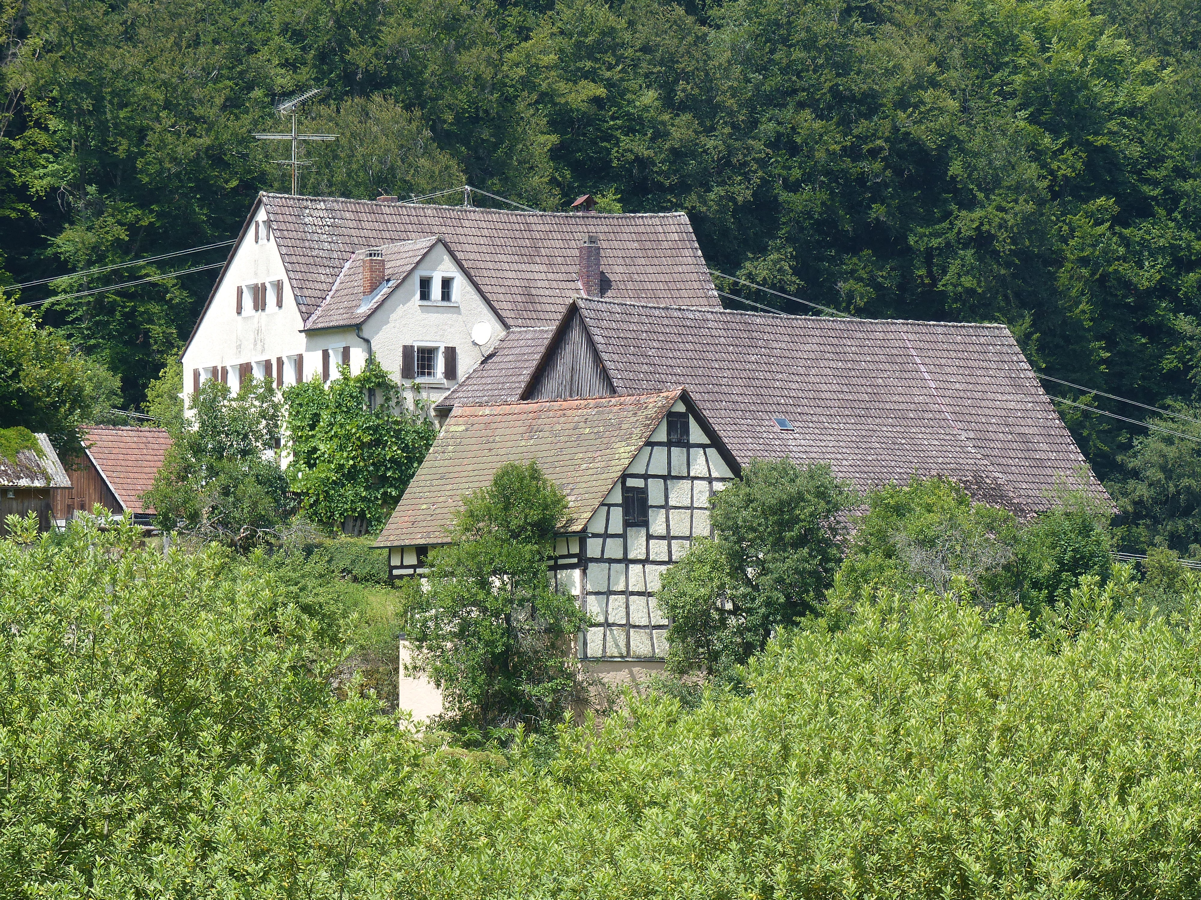 A farm and former castle site in the solitude Dörnhof, a district of the town of Gräfenberg.